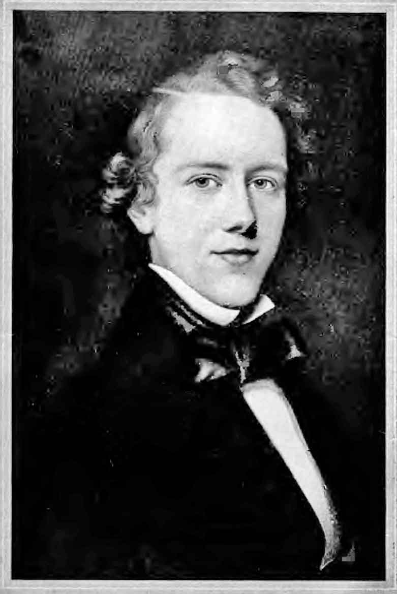 From Hudson Taylor In Early Years: The Growth of A Soul by Dr. and Mrs. Howard Taylor; Morgan & Scott; 1911